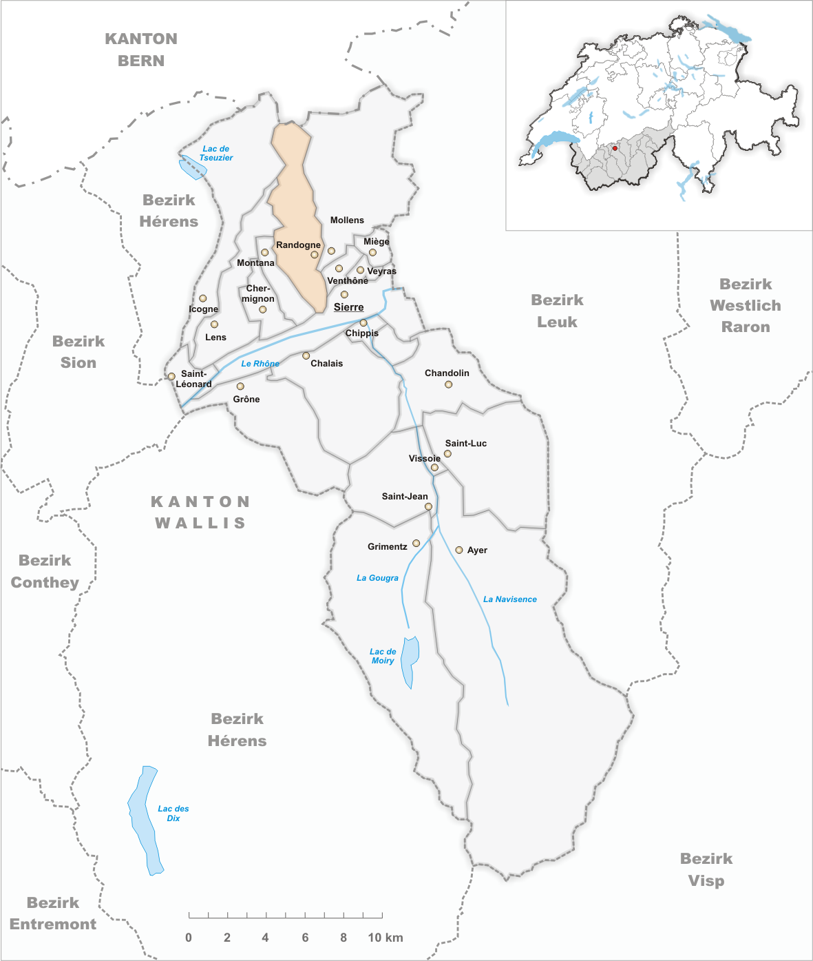 Municipality Randogne